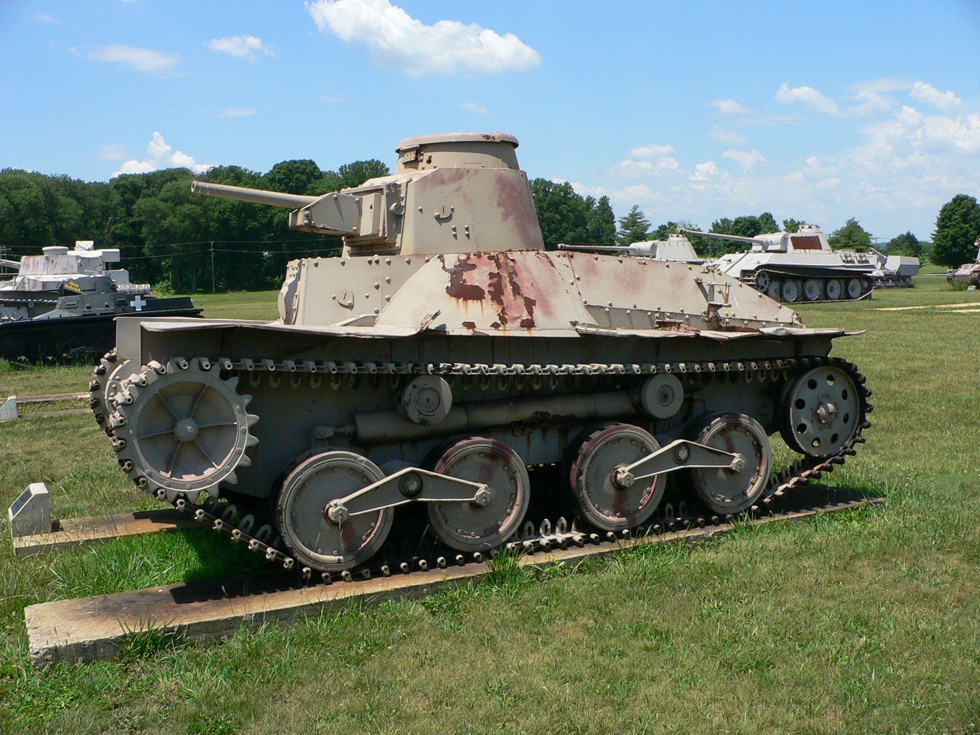 Picture taken by myself, Mark Pellegrini, at the United States Army Ordnance Museum (Aberdeen Proving Ground, MD) on June 12, 2007.